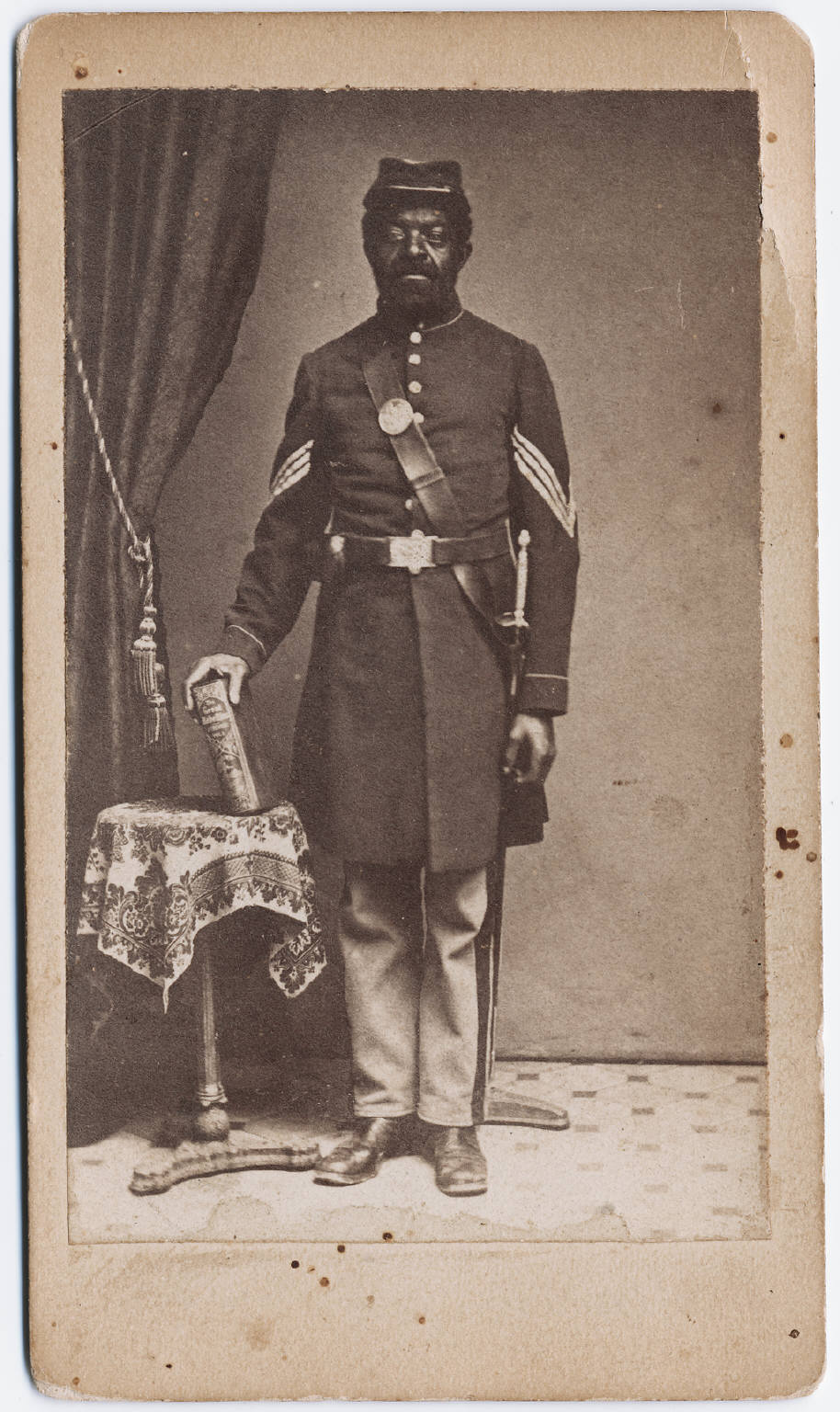 Black and white carte de visite of a black man dressed in a Union Army Sergeant uniform with sergeant stripes, long straight sword hung from belt, and left hand holding a copy of a book entitled "The Great Rebellion," by Joel Tyler Headley. 10 cm x 7 cm. Photograph by J. Oldershaw, northeast corner of High and Asylum Streets, Hartford, Connecticut. Courtesy of the Yale Collection of American Literature, Beinecke Rare Book and Manuscript Library, Yale University, New Haven, Connecticut.